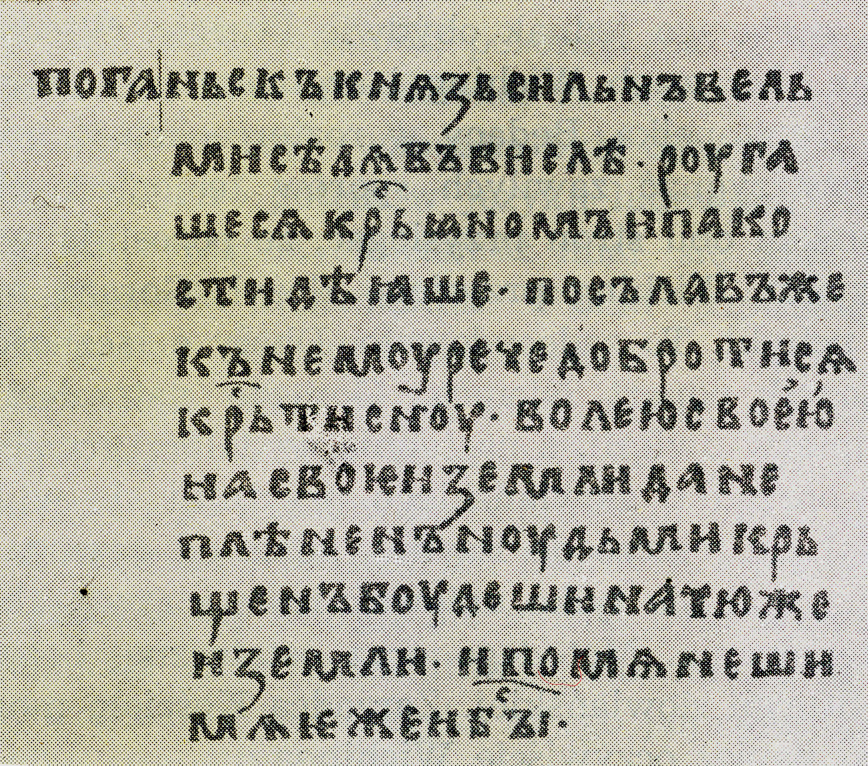 Fragment of The Life of St Methodius (Pannonian Legend), manuscript from the XII century which concerns the prince of Vistulans